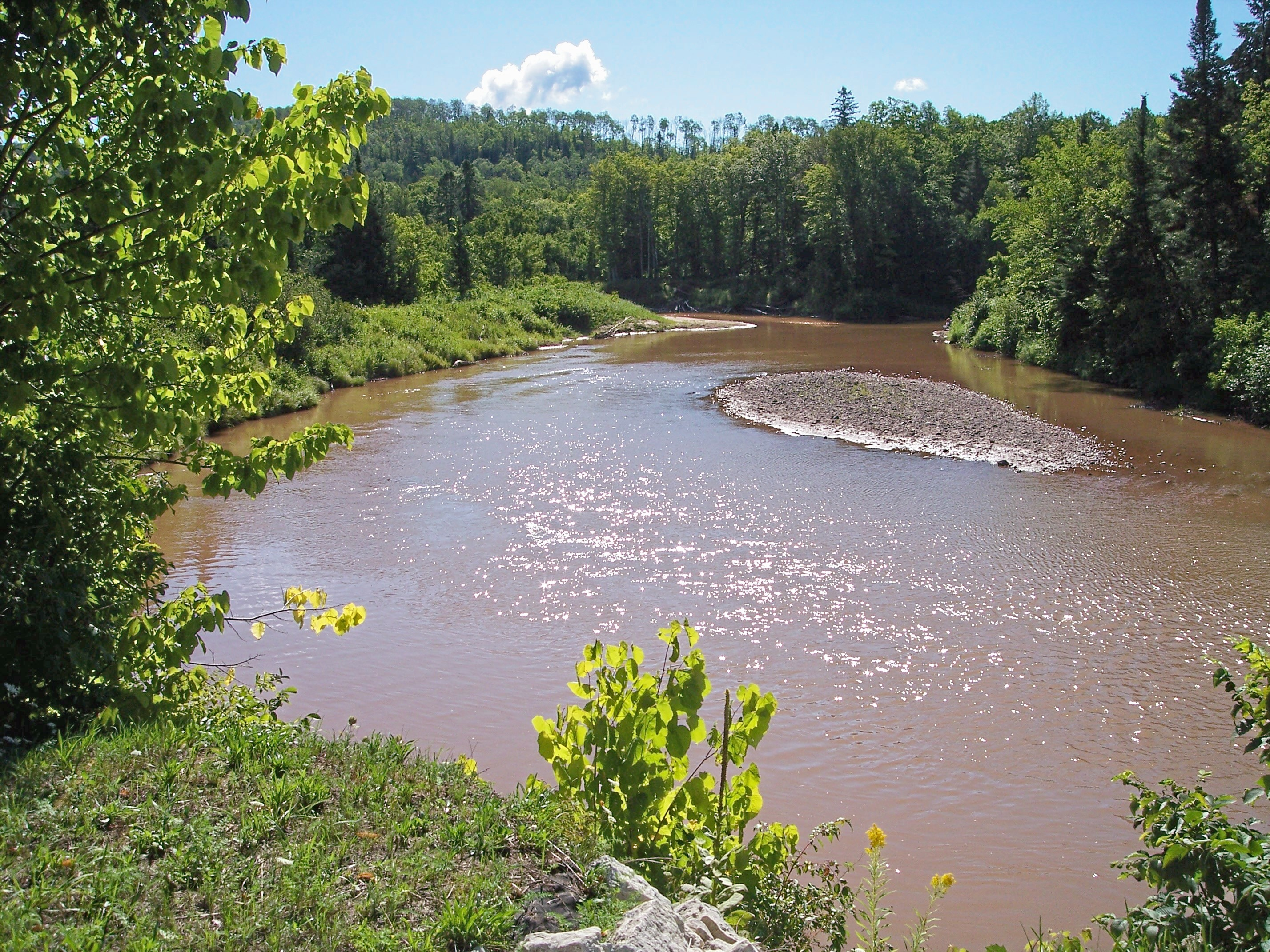 An upstream view of the Ontonagon River just below the confluence of its East and Middle branches, as viewed from a roadside park along U.S. Route 45 in Ontonagon County, Michigan. The confluence of the branches can be somewhat discerned in the background of the picture (east branch at left, middle branch at right).